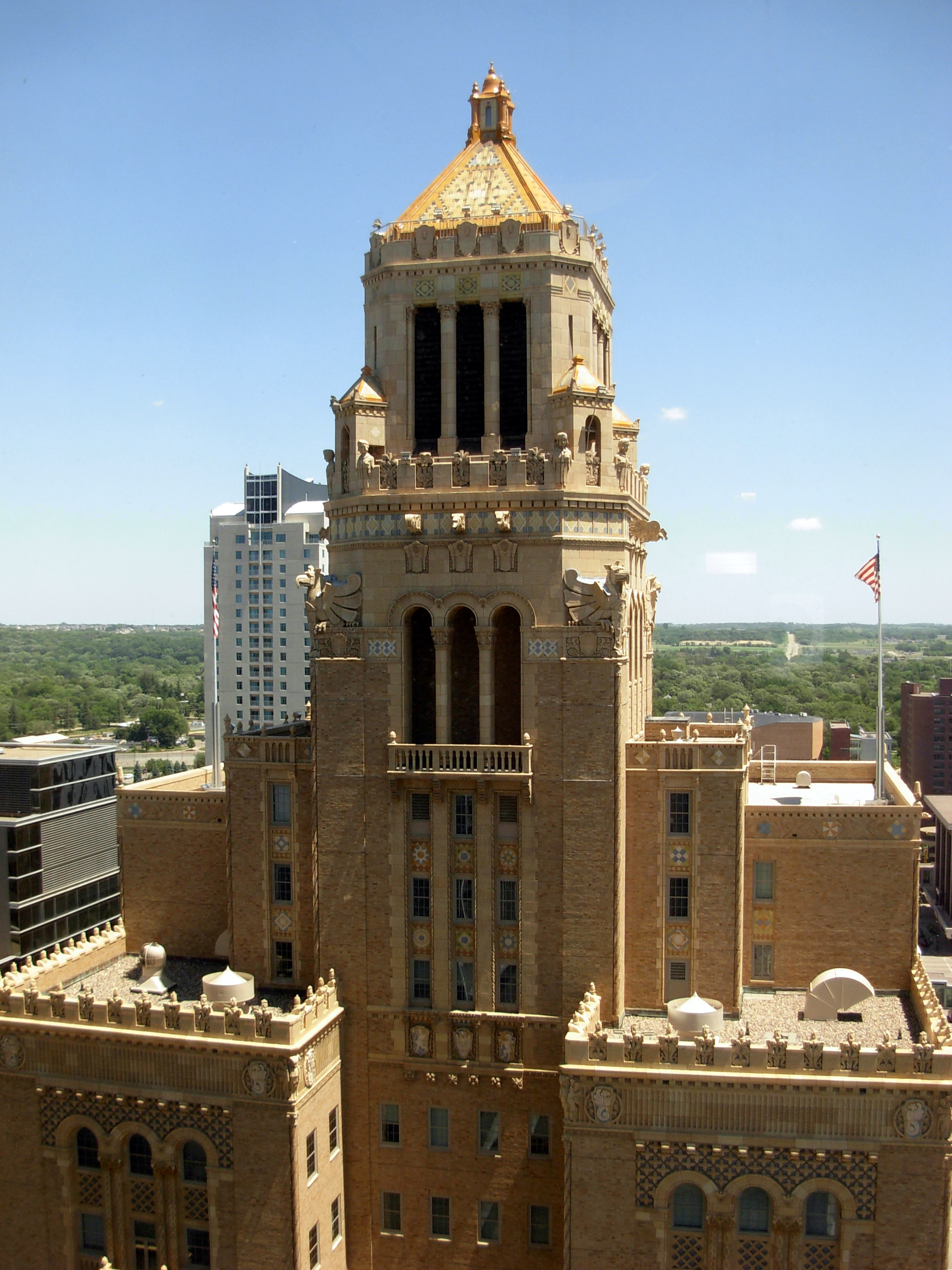 Mayo Clinic Plummer Building (seen from Mayo Bldg floor 16) in Rochester, Minnesota